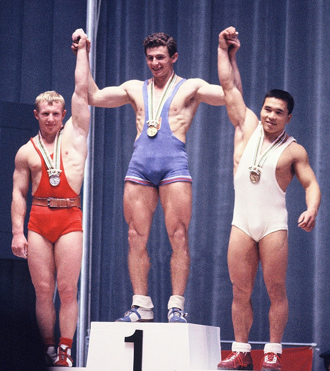 Viktor Kurentsov, Hans Zdražila, Masashi Ouchi, 1964 Olympics